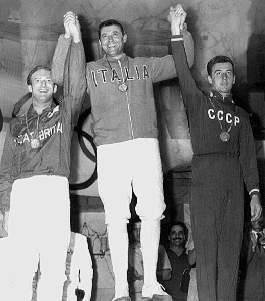 Left-right: Allan Jay, Giuseppe Delfino, Bruno Habārovs at the 1960 Olympics